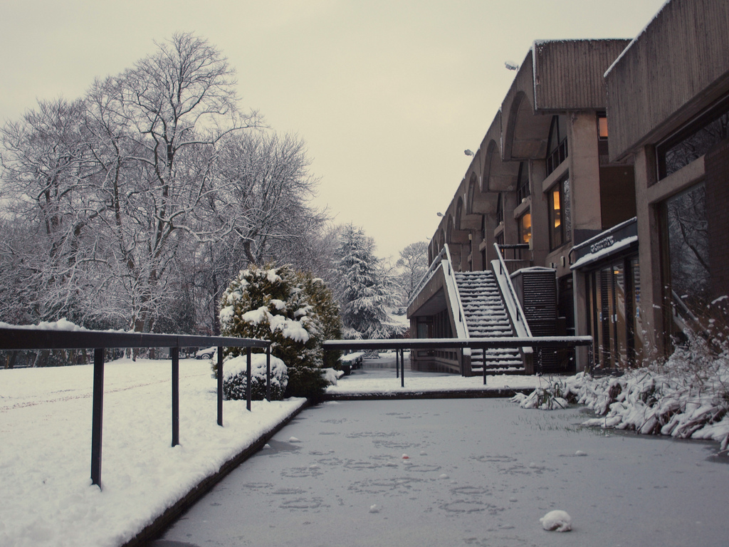 Carnatic Halls of Residence - University of Liverpool